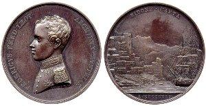 Austrian silver medal (end of 19th century) to commemorate Archduke Friedrich Ferdinand Leopold of Austria-Teschen 1821-1847, Vice-Admiral, High Commander of the Austrian Imperial-Royal Navy 1844-47